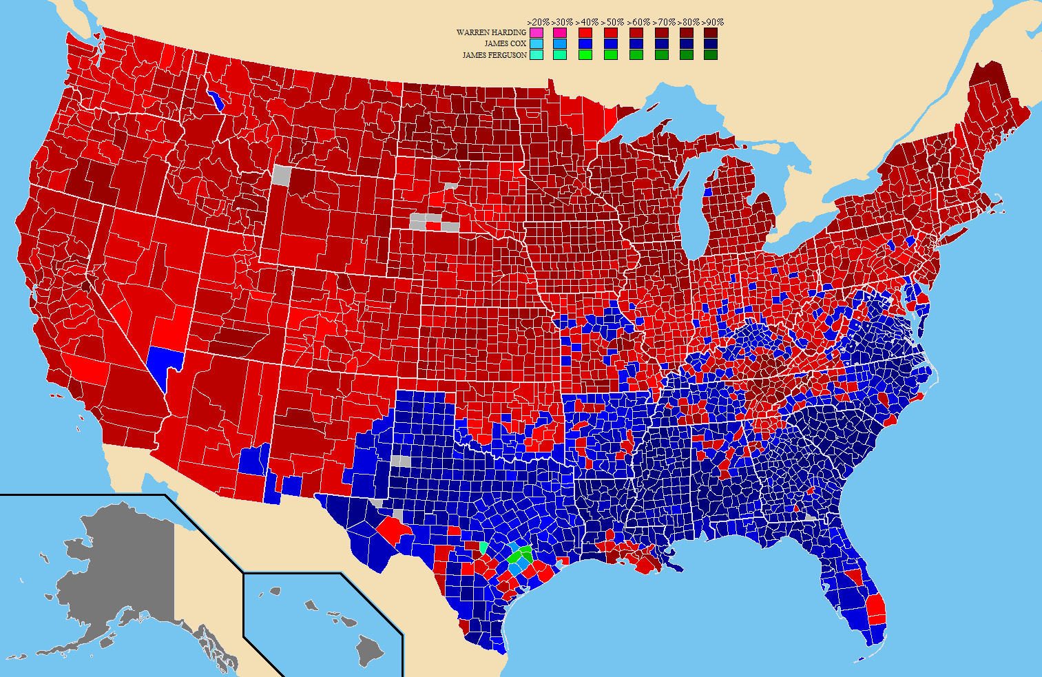 A map of the counties won by each candidate in the United States presidential election.